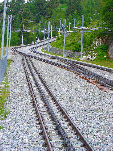 Gornergratbahn GGB / Riffelalp